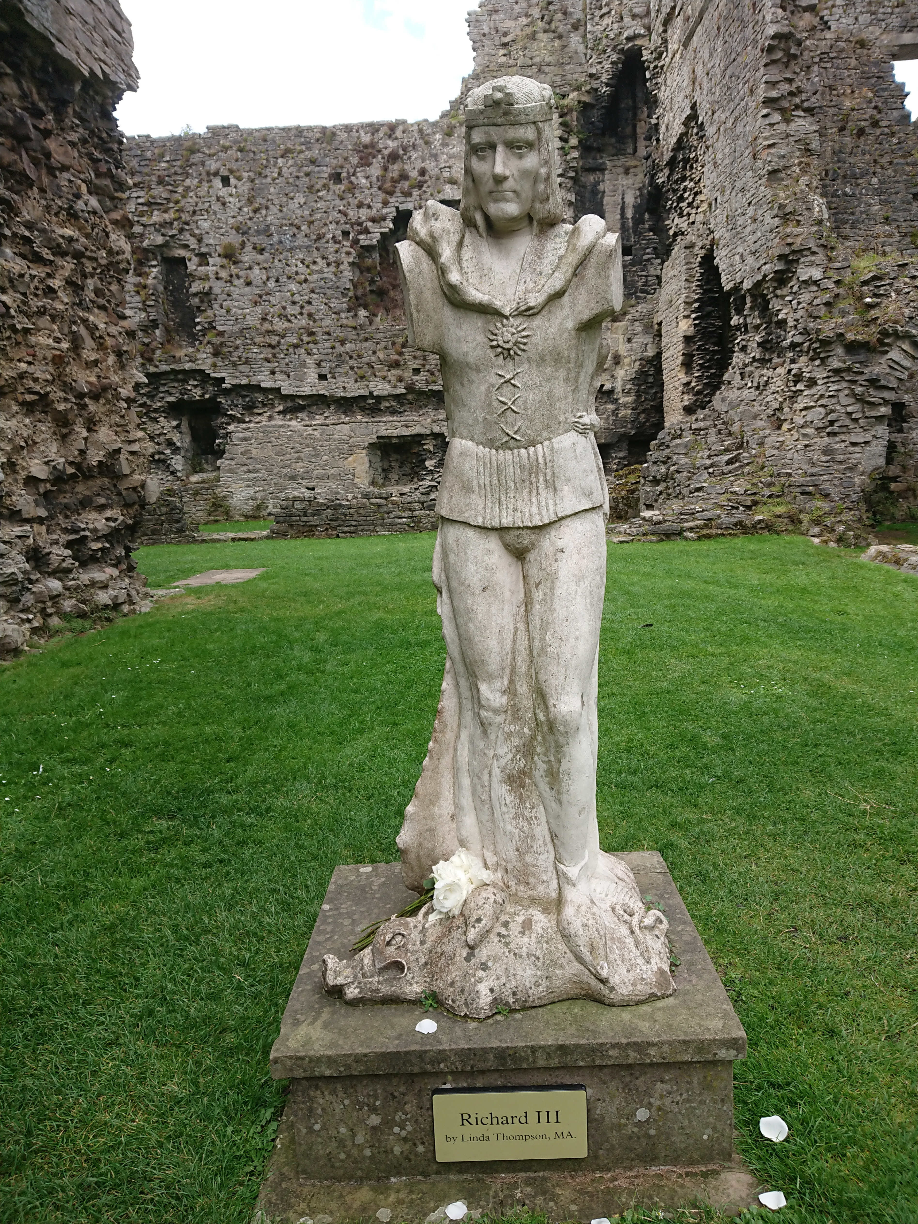 Middleham Castle Wikidata has entry Q2705370 with data related to this item. Best known as one of the childhood homes of Richard III, Middleham Castle dominates the North Yorkshire town of Middleham. From the core of its Norman great tower, one of the largest in the country, the castle developed under the powerful Nevilles into a residence worthy of a family who dominated English affairs for over two centuries. Richard, Duke of Gloucester (later Richard III) spent his youth at Middleham and it became one of his royal homes.